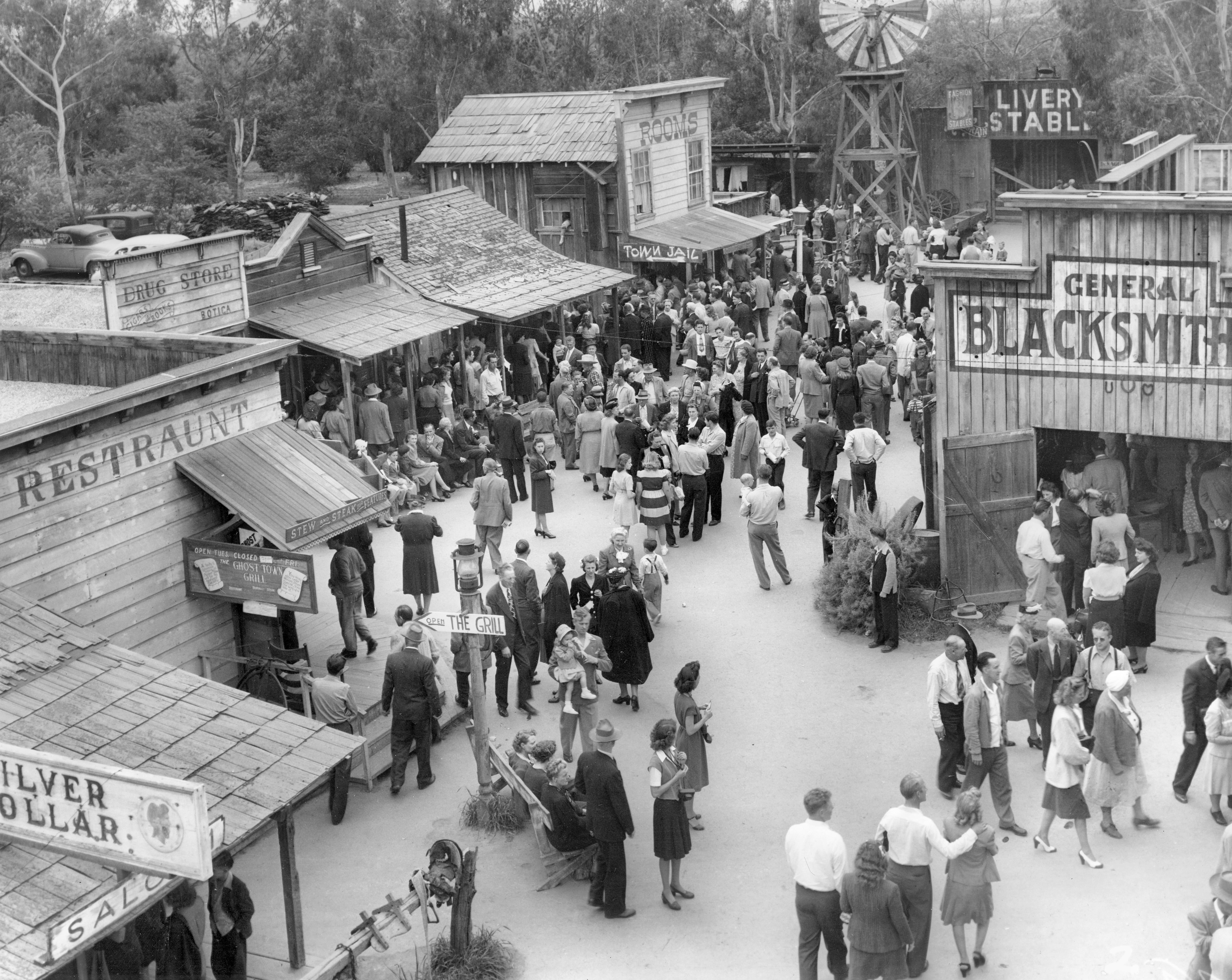 Ghost Town at Knott's Berry Farm in Orange County, California, ca. 1940s